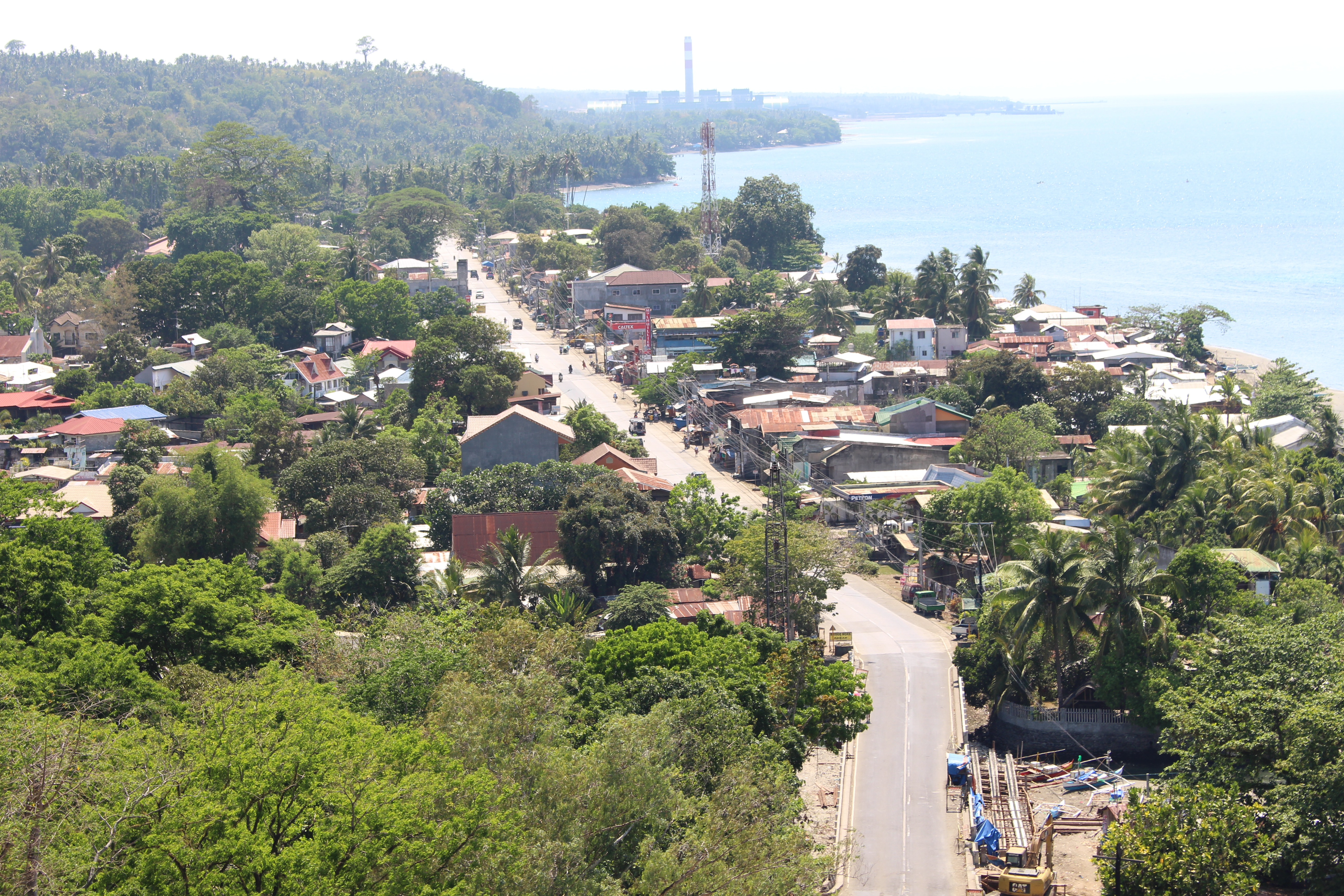 The municipal proper of Linamon as seen in bird's eye view in Iligan City.